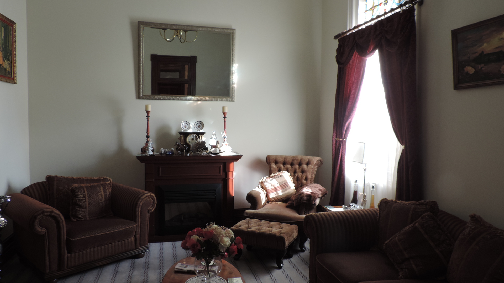 Our Lady of Assumption Convent, Warwick - front lounge room, 2015